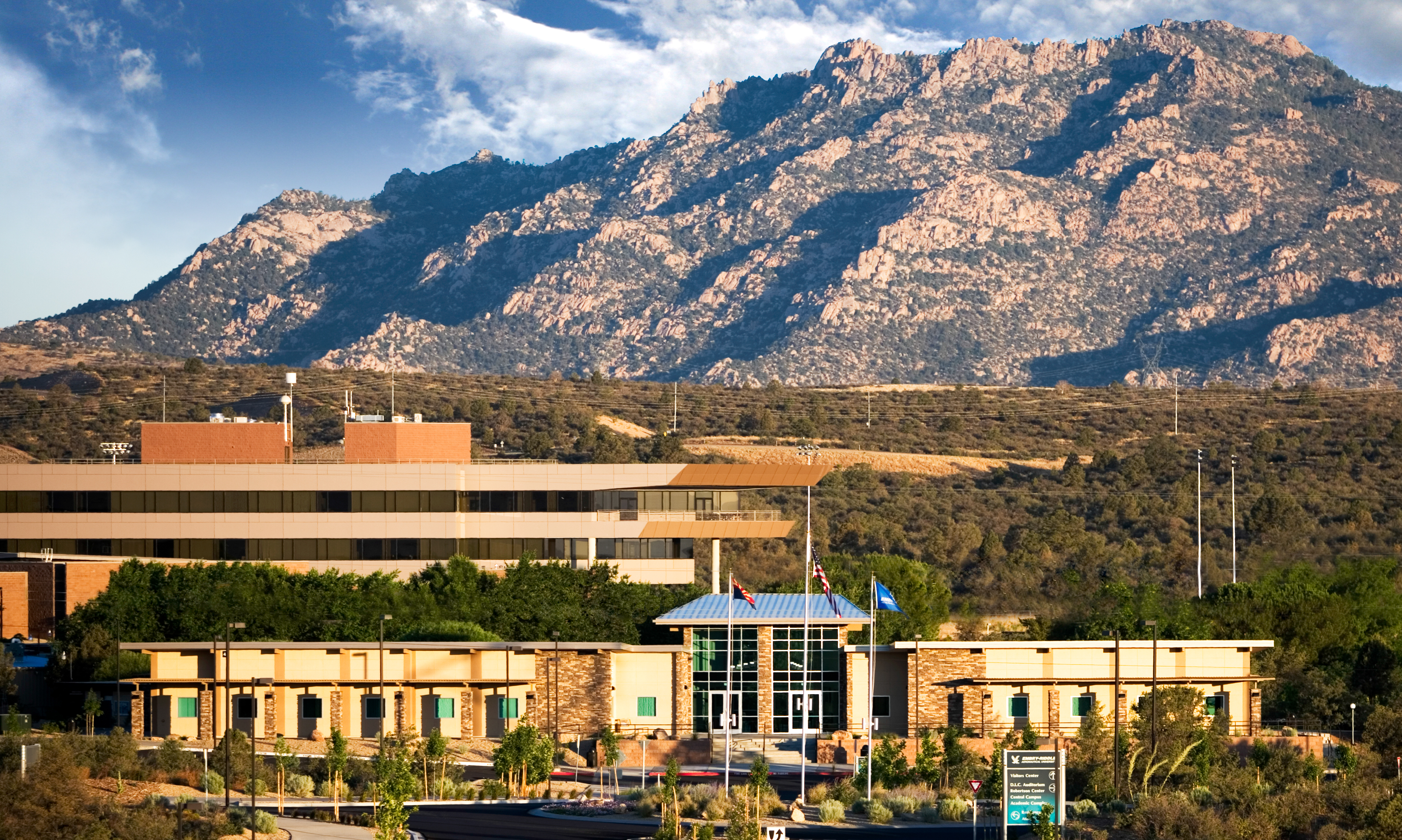 Campus view